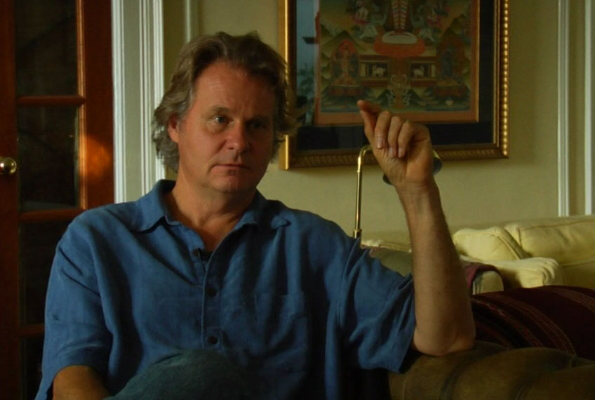 Shot on SONY VX1000E